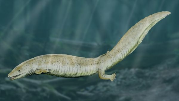 Eogyrinus an early tetrapod from the Late Carboniferous of England, pencil drawing and digital coloring